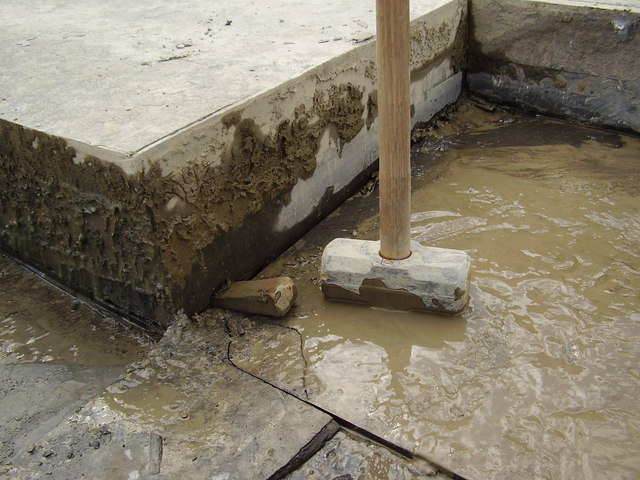 Quarry. After the flagstone has been cut a wedge is hammered under the layer to lift it then a forklift will lift it from there.